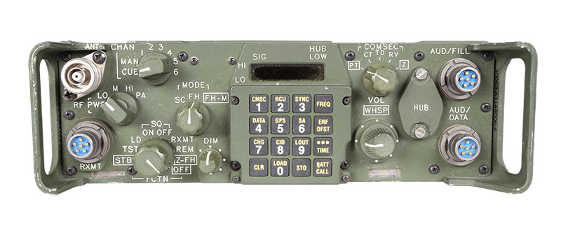 The front of the Exelis SINCGARS RT-1523C